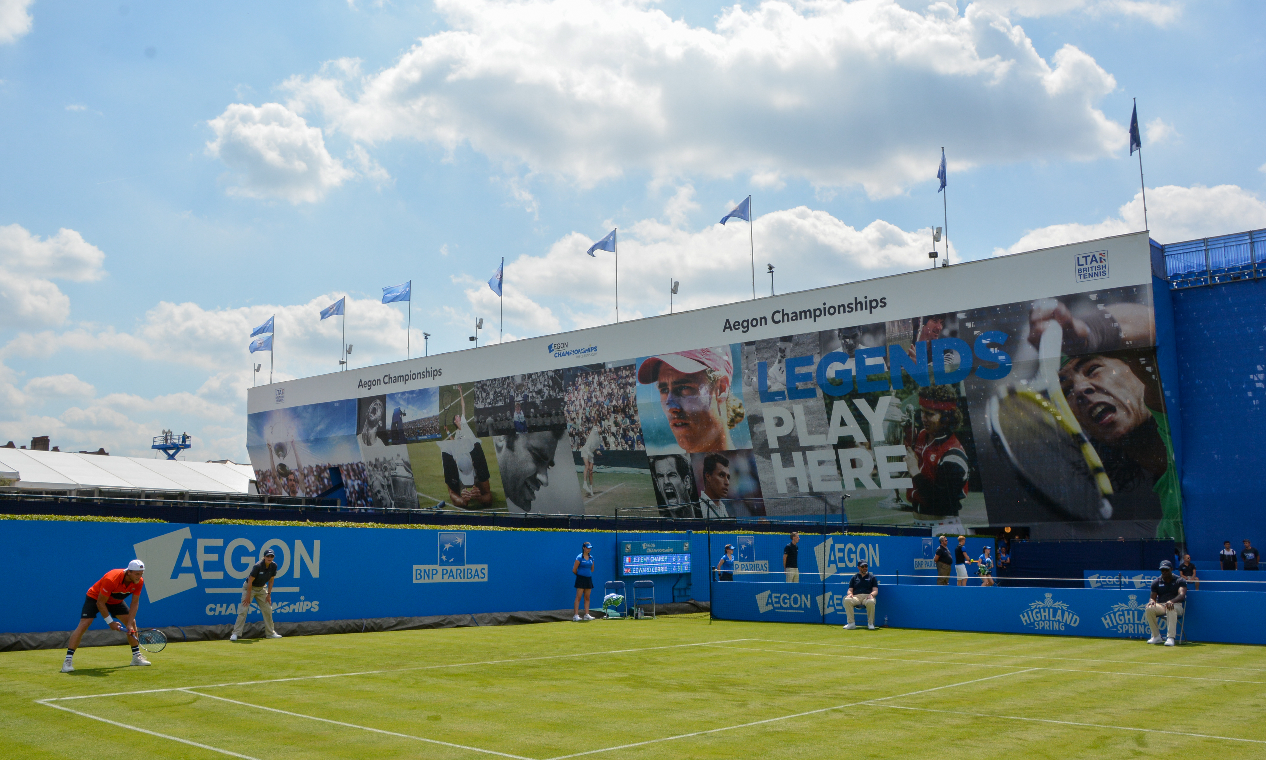 Centre Court in the background. It's changed a bit from previous years.